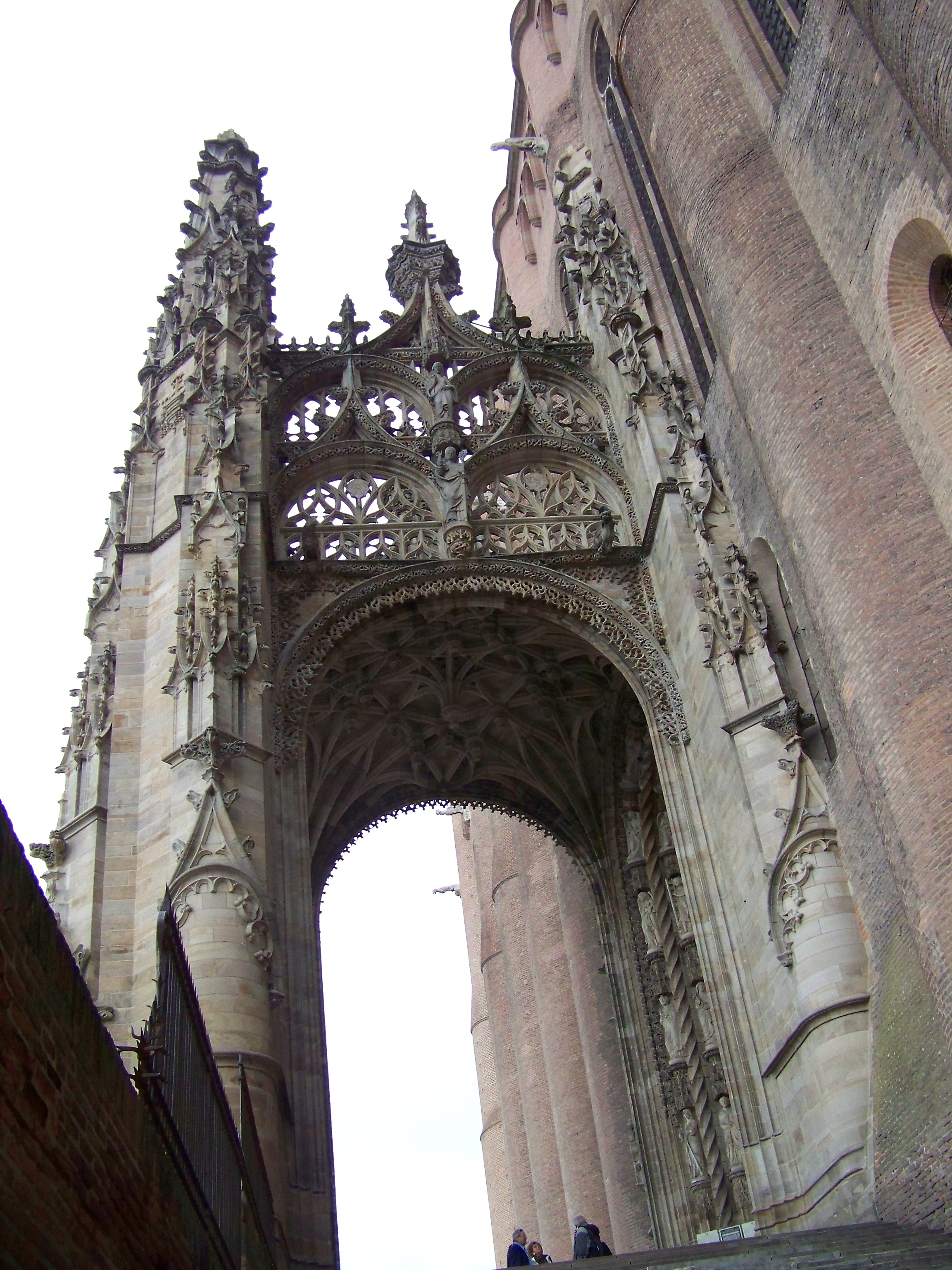 Porch of the cathedral Saint-Cecilia in Albi